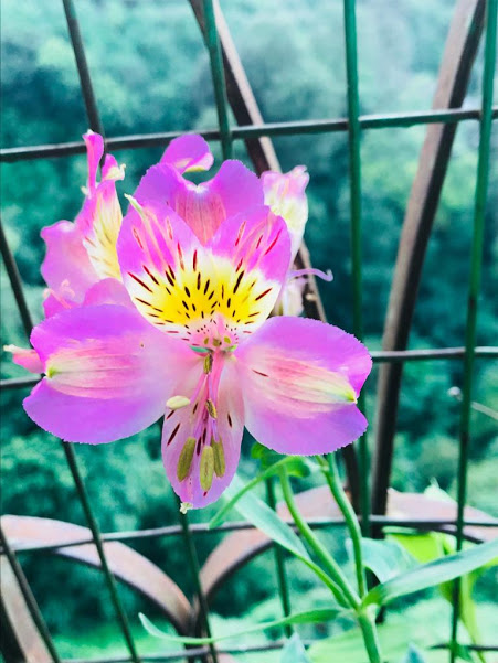 A Peruvian lily growing in Mussoorie